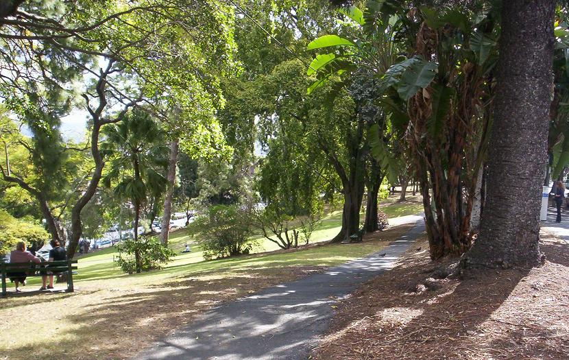 Trees and grass in Wickham Park, Wickham Terrace, Brisbane ( this photograph was taken by Figaro )